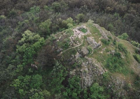 Hegyesd, Hungary, aerialphotography